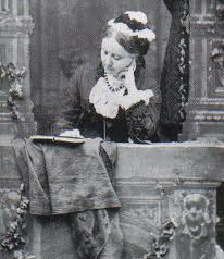 Georgina Hogarth, Charles Dickens's sister-in-law and housekeeper